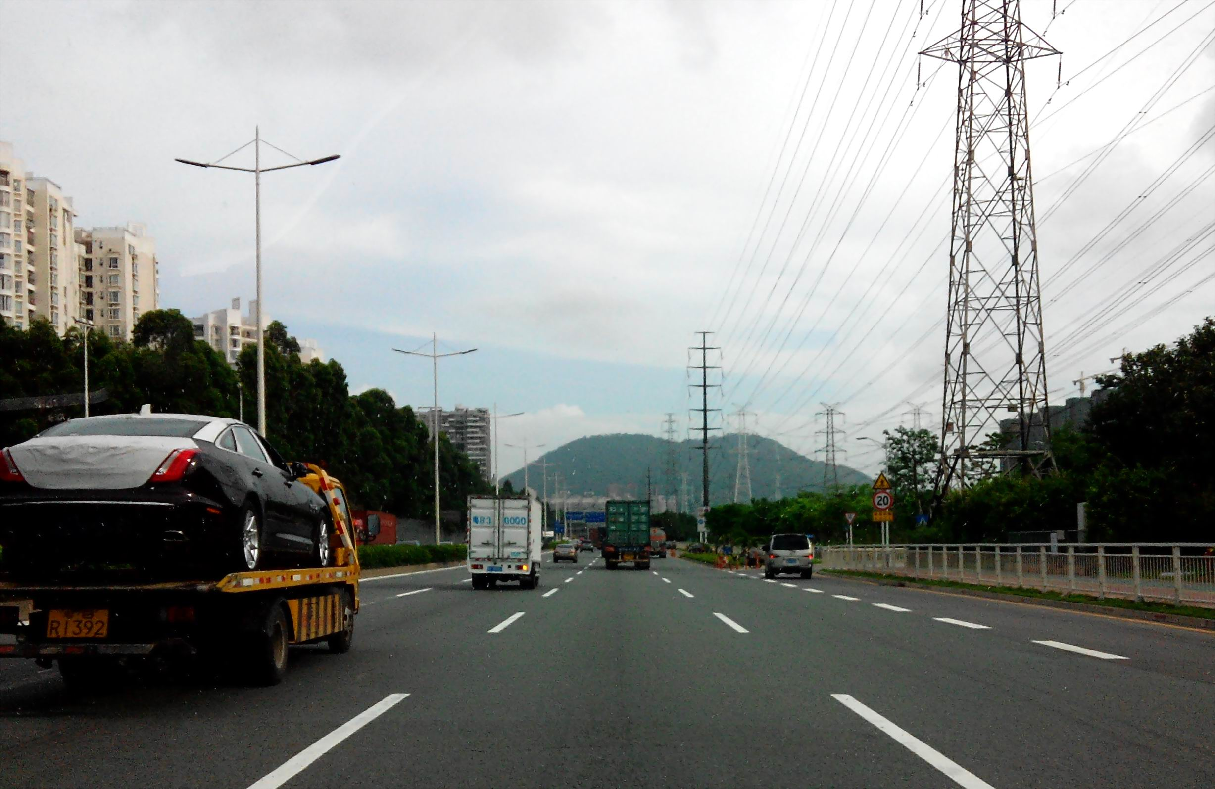 Yueliangwan Blvd, Shenzhen, Guangdong, P.R.China